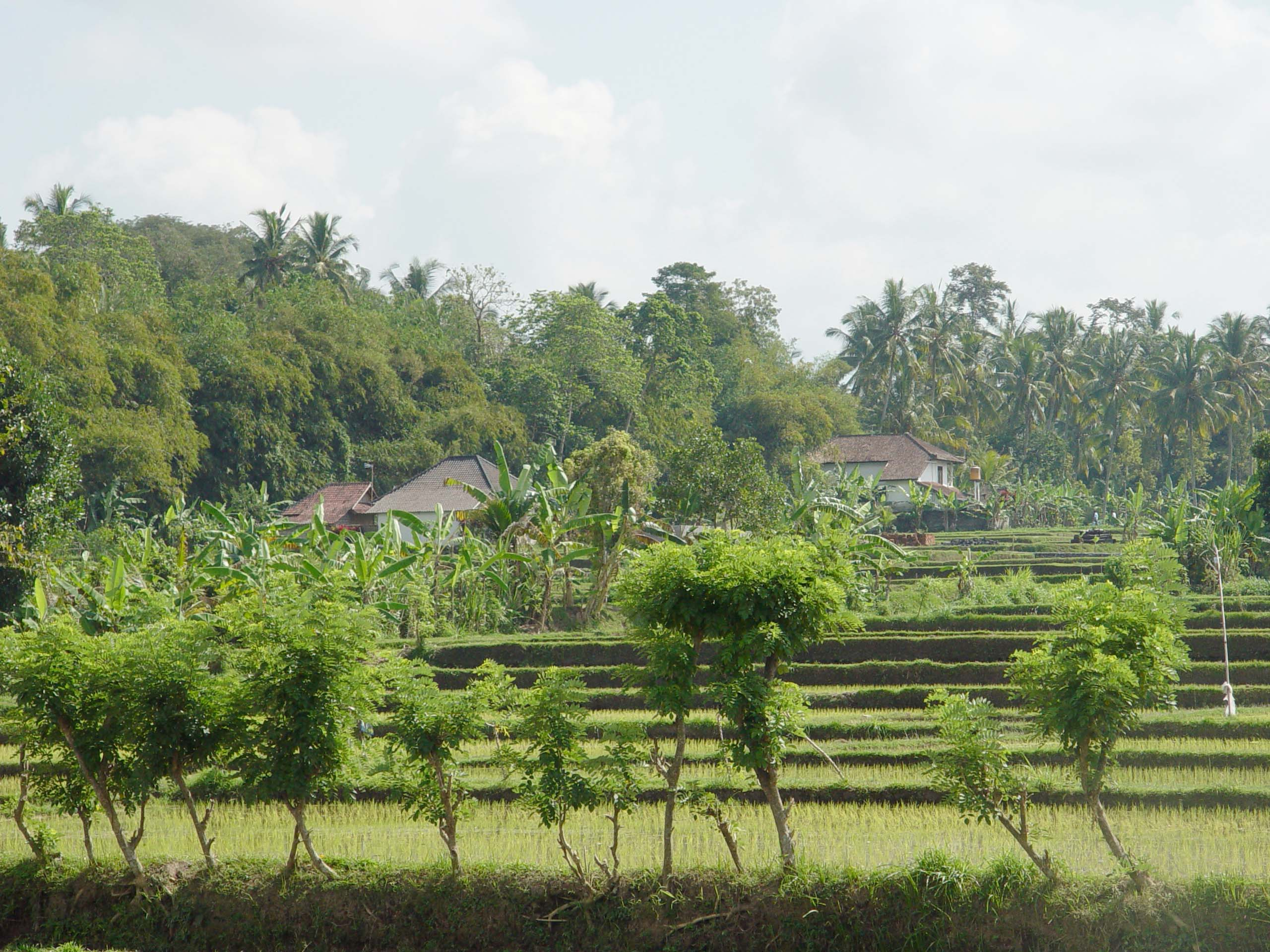 Lungsiakan, Kadewatan, Ubud, Gianyar, Bali, Indonesia July, 2005